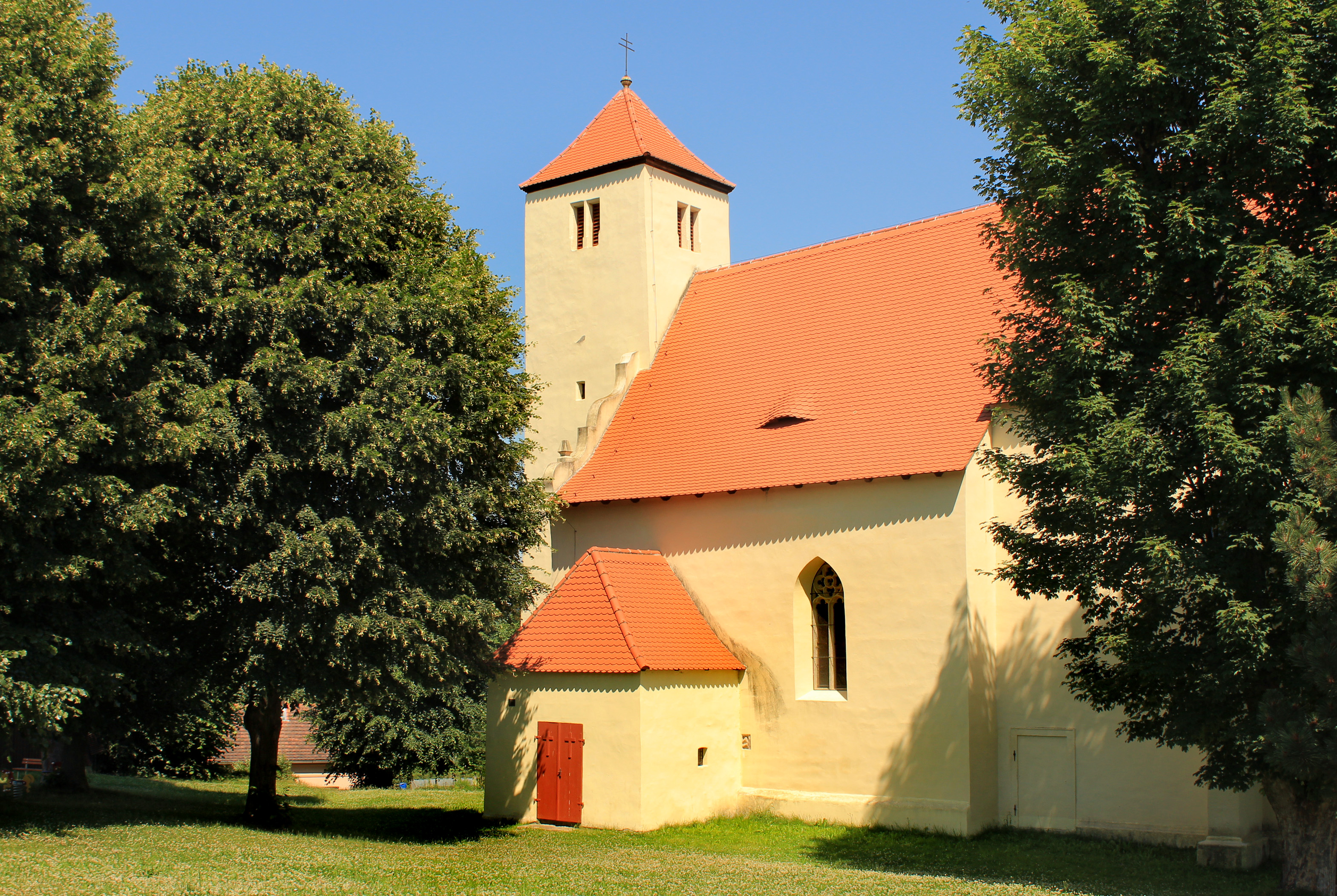 Church in Bukovec, Czech Republic.